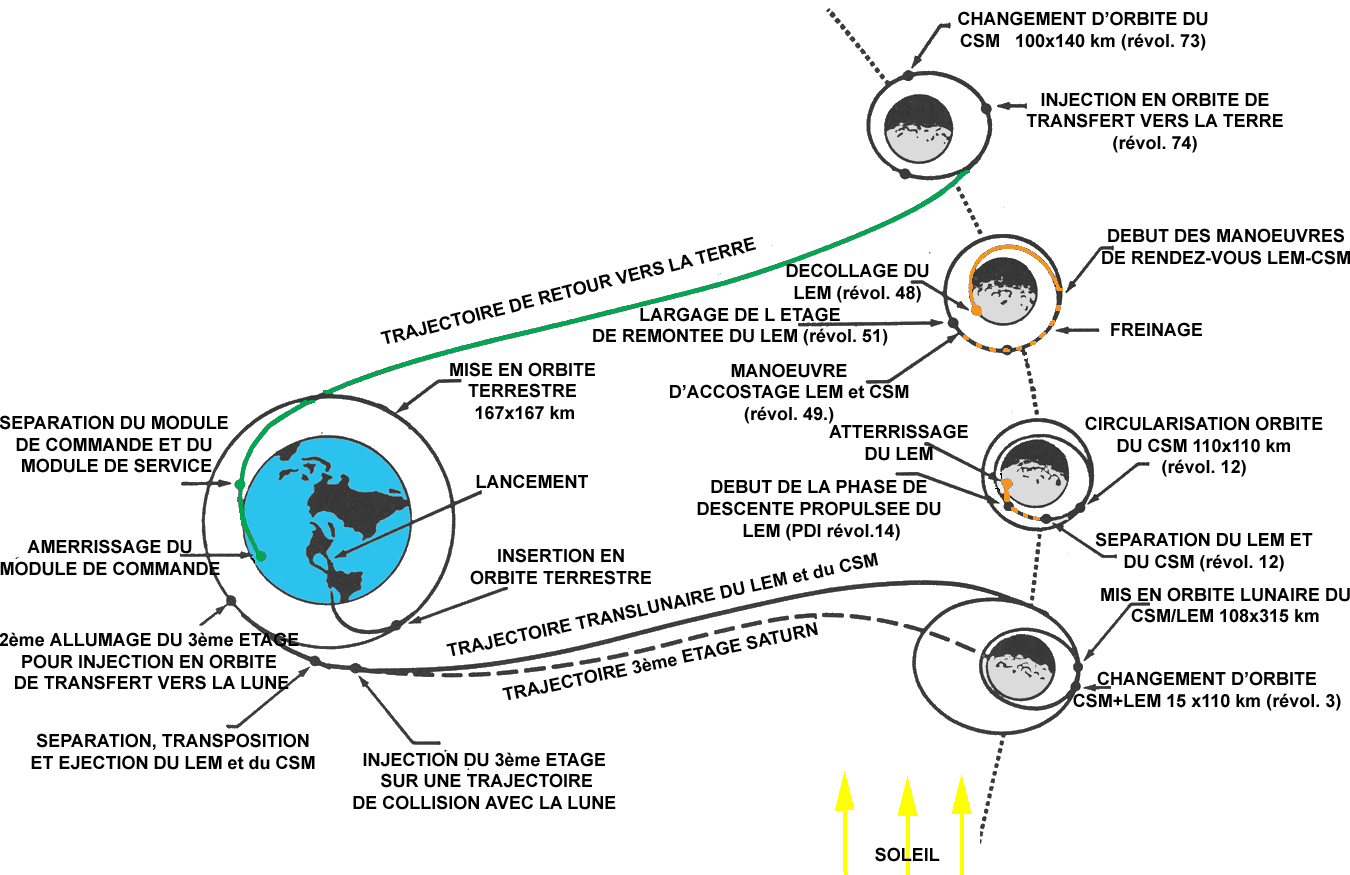 Apollo 15 mission trajectory